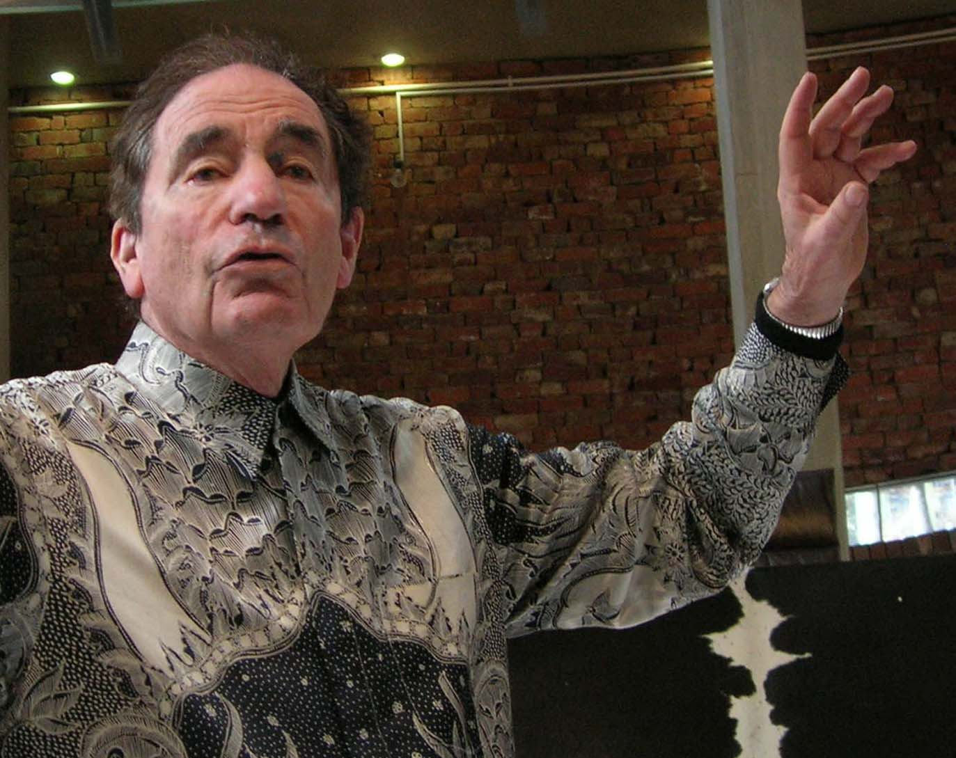 Justice Albie Sachs in South Africa's Constitutional Court